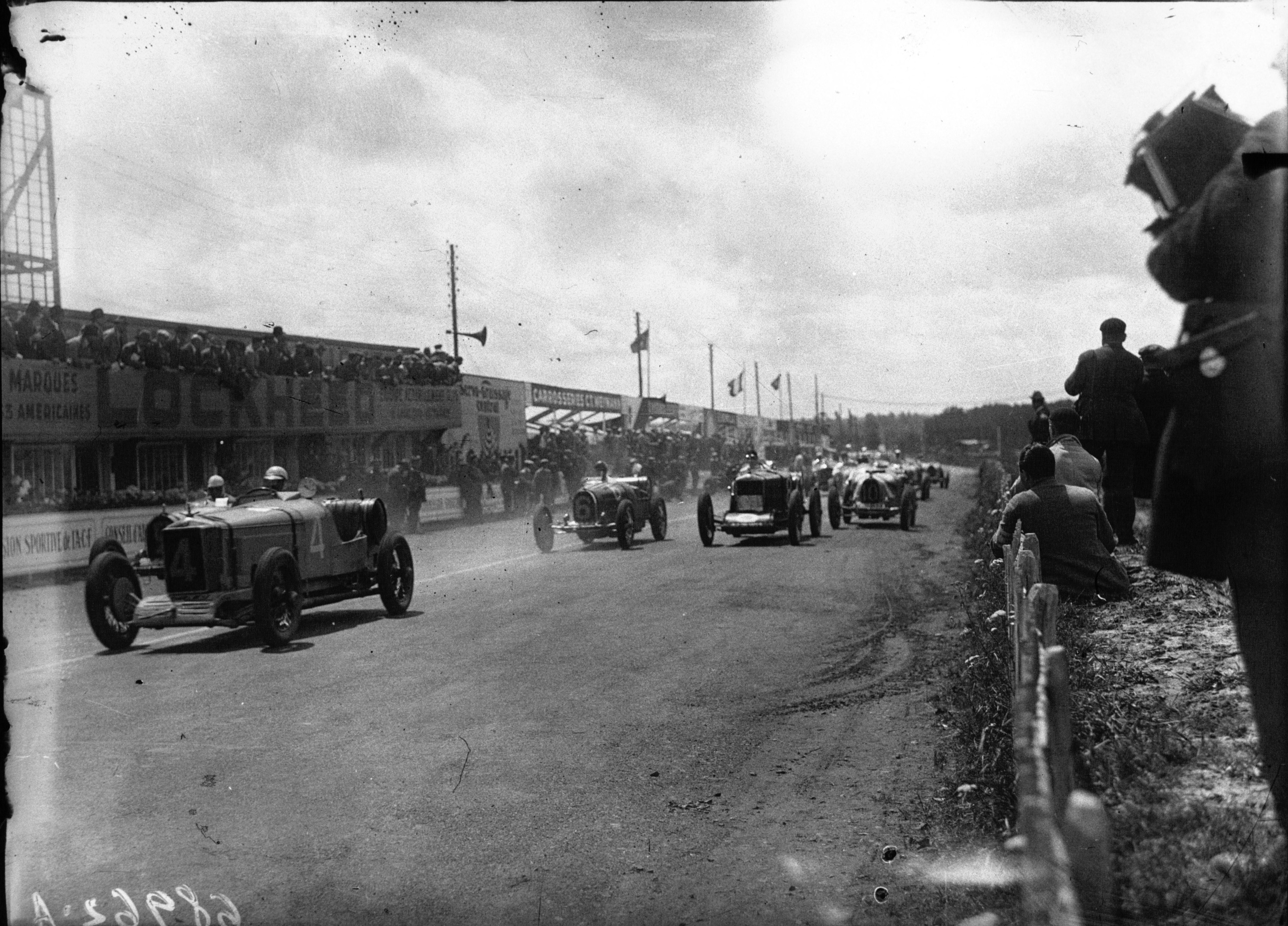 Start of the 1929 French Grand Prix